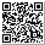 BIDI catala